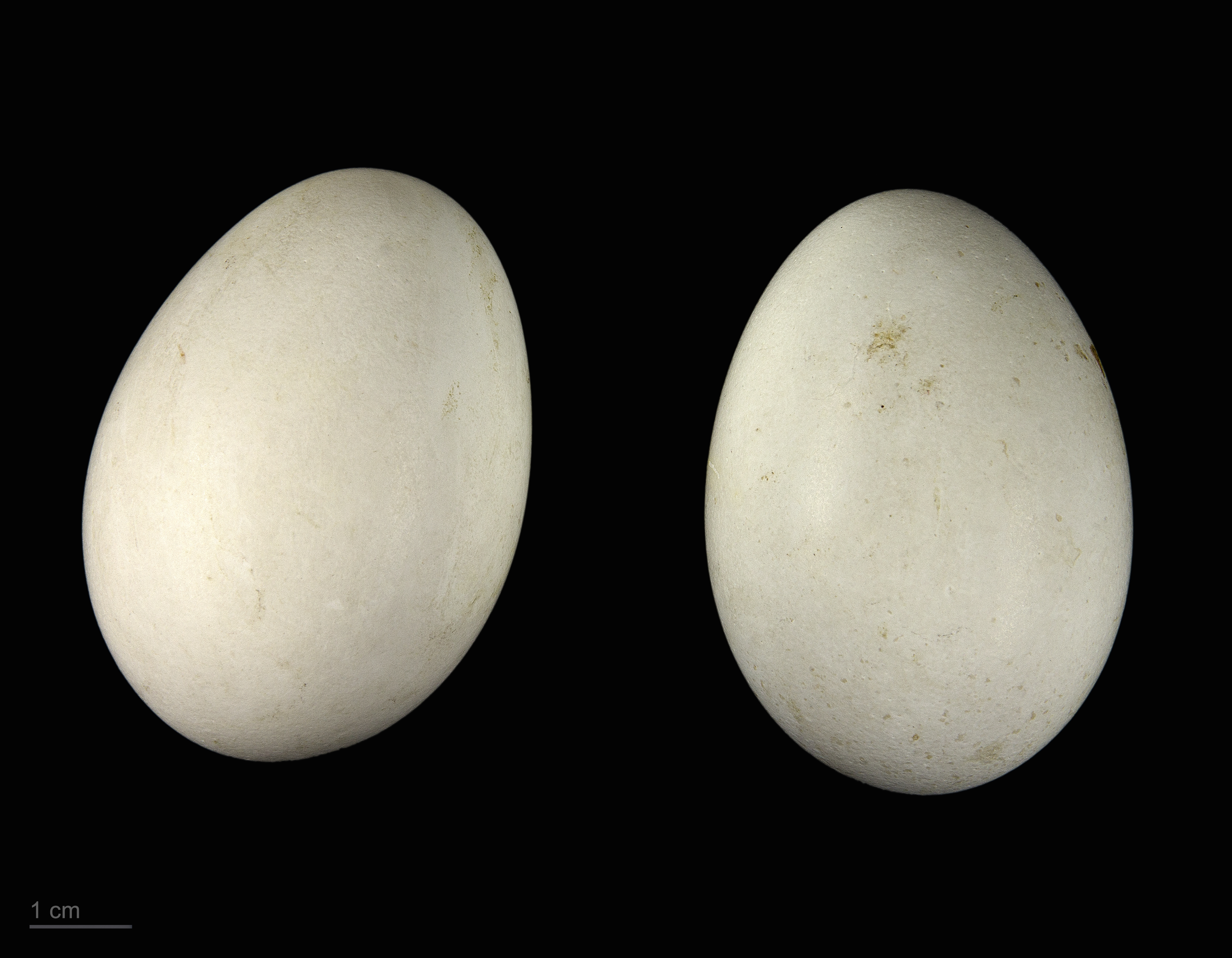 Eggs of black sparrowhawk Two specimens of the same spawn ; collection of Jacques Perrin de Brichambaut.